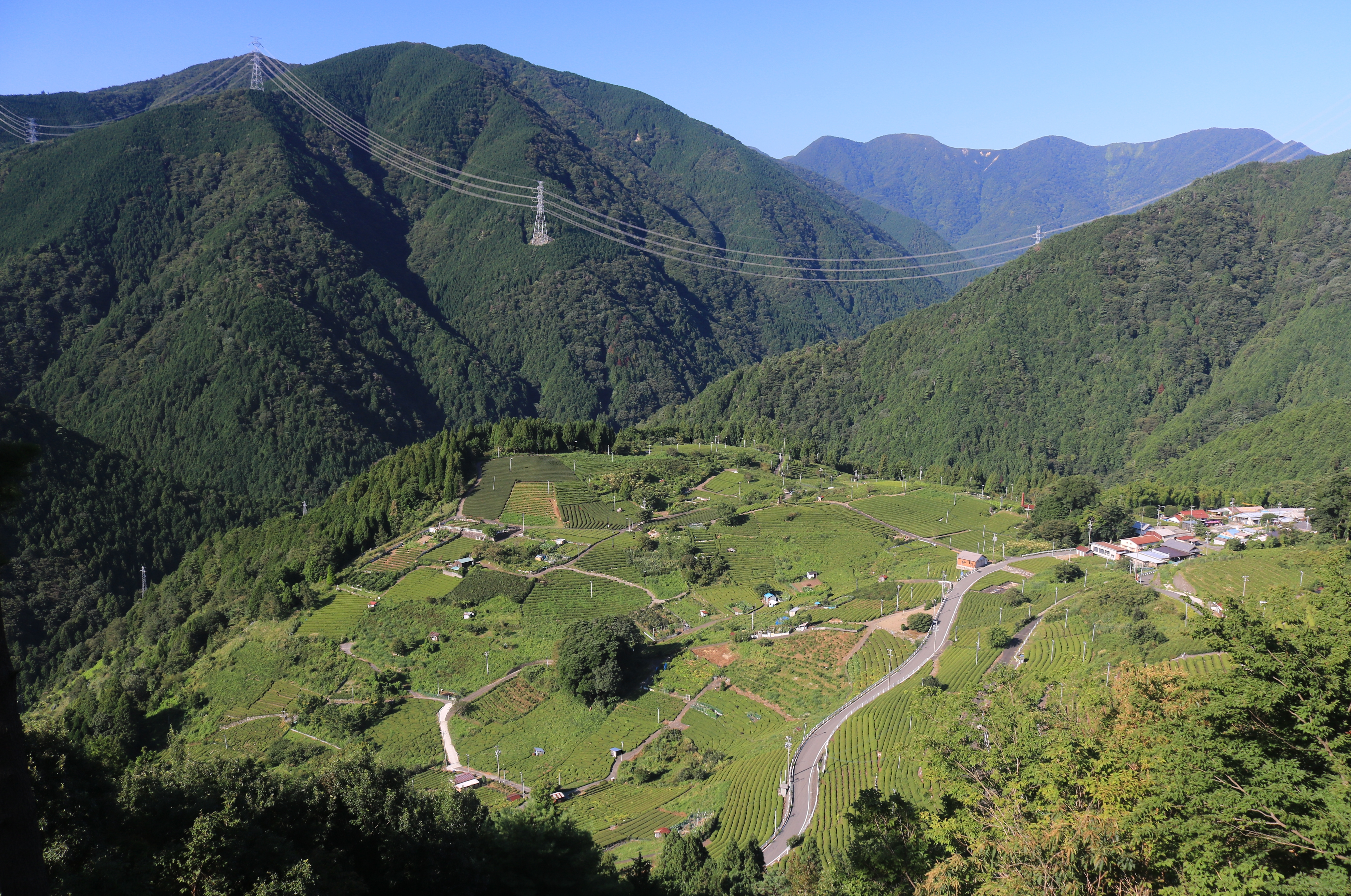 Kamigare Tea Plantation in Ibigawa, Gifu Prefecture, Japan.